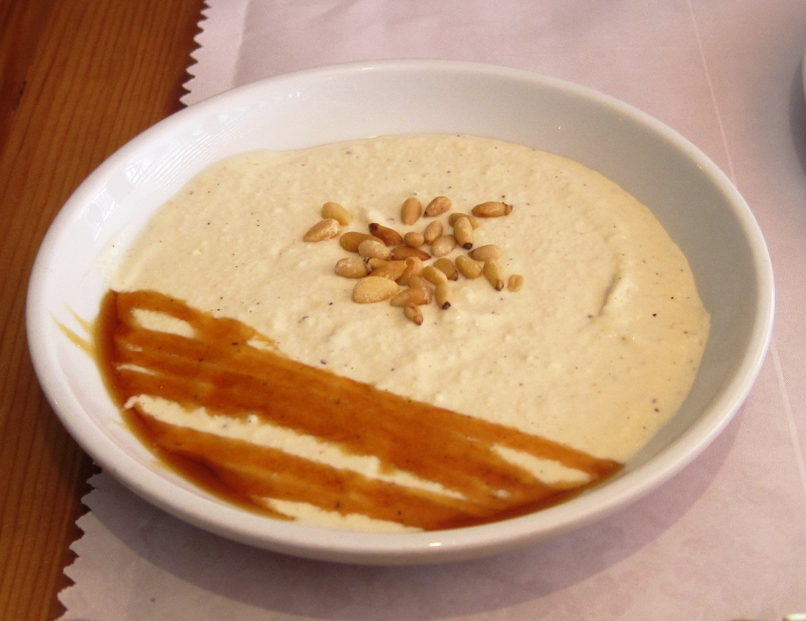 The Dining Hall 2011